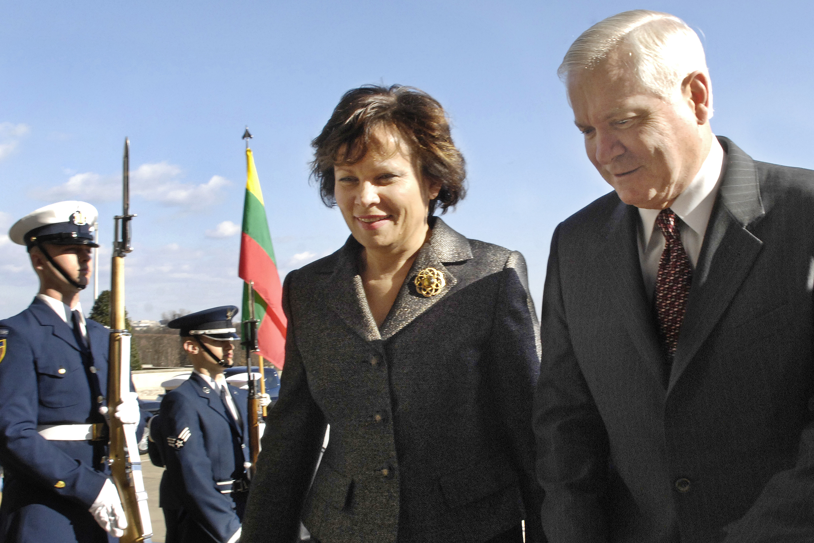 Defense Secretary Robert M. Gates, right, escorts Lithuanian Minister of Defense Rasa Jukneviciene through an honor cordon to discuss bilateral defense issues at the Pentagon, Feb. 12, 2009.